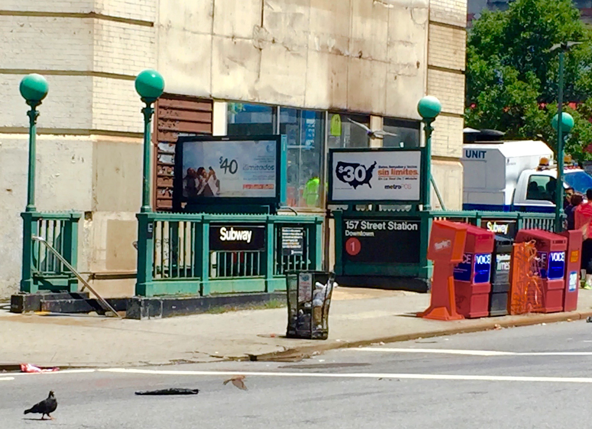 Downtown entrance at 157th Street on the 1.